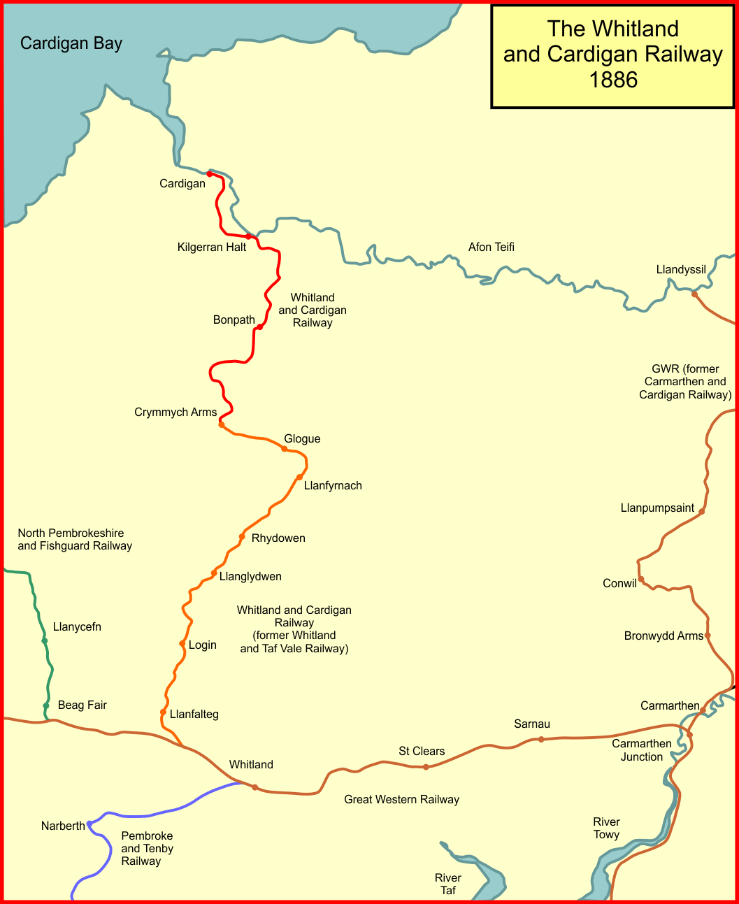 System map of the WHitrland and Cardigan Railway, south west Wales